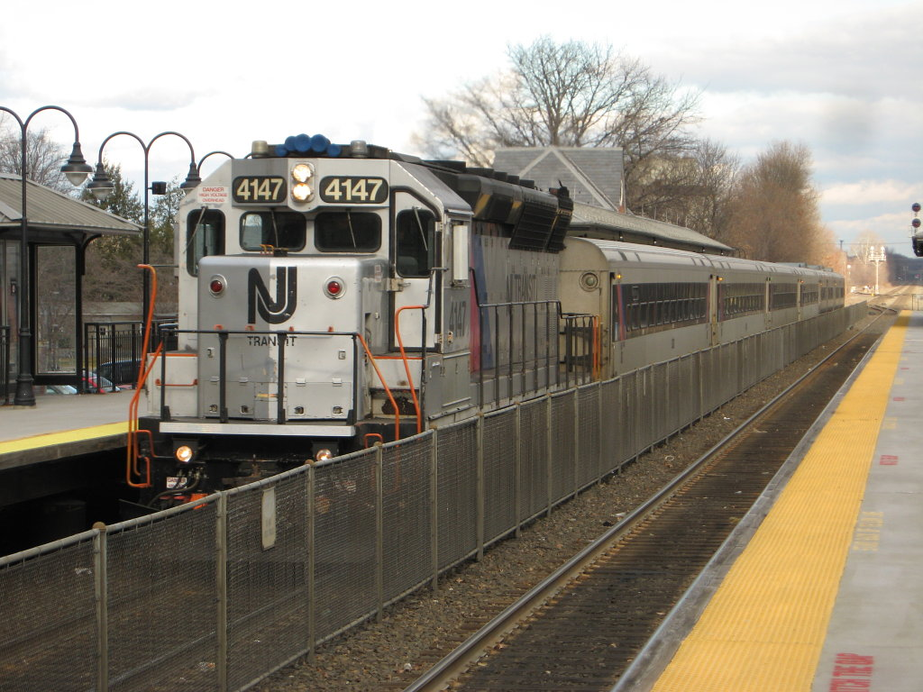 Train #5427, led by locomotive #4147, enters the Plainfield Railroad Station.